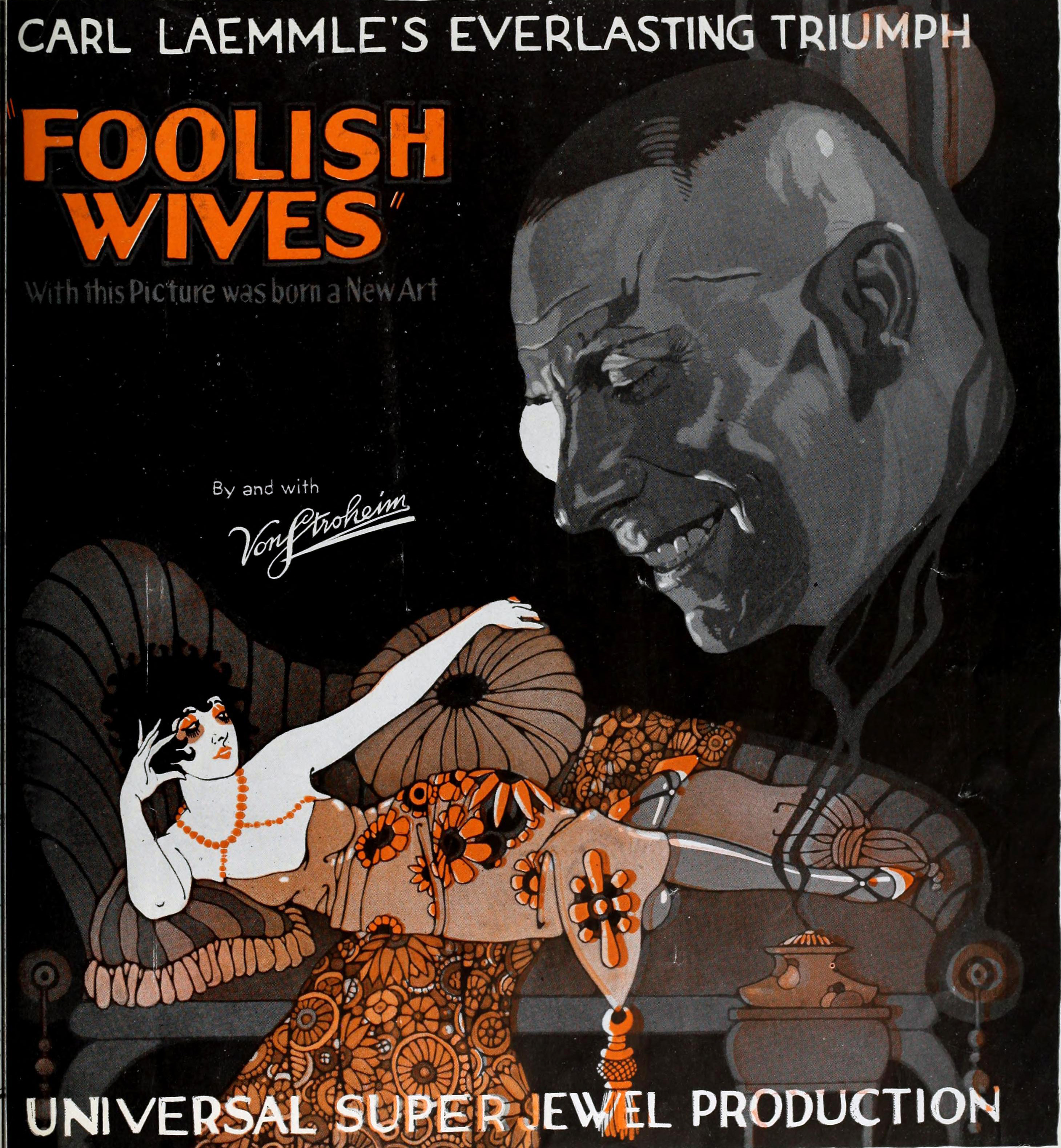 Poster for Foolish Wives, a 1922 American film produced and distributed by Universal Pictures.